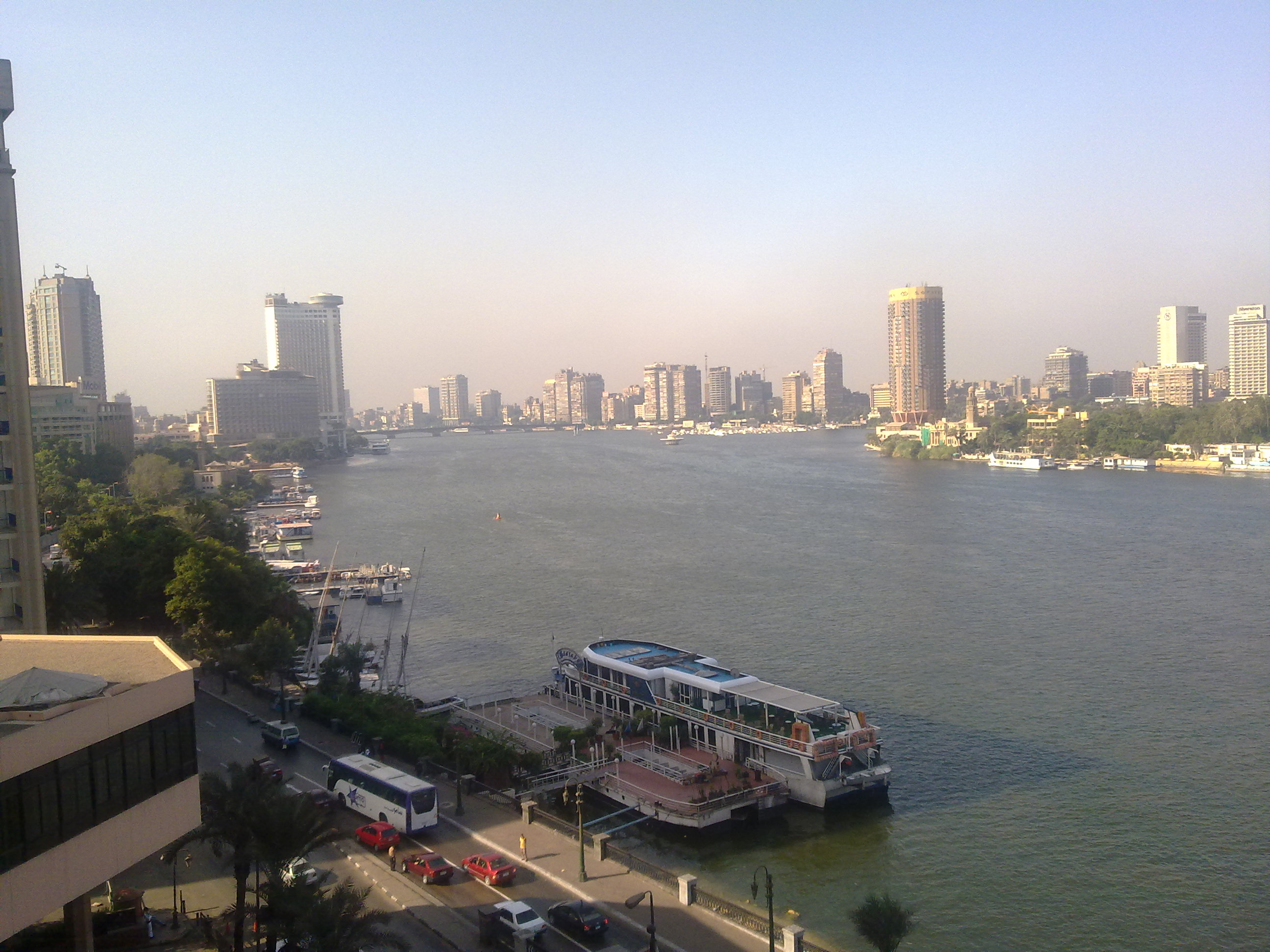 View of the nile in Cairo